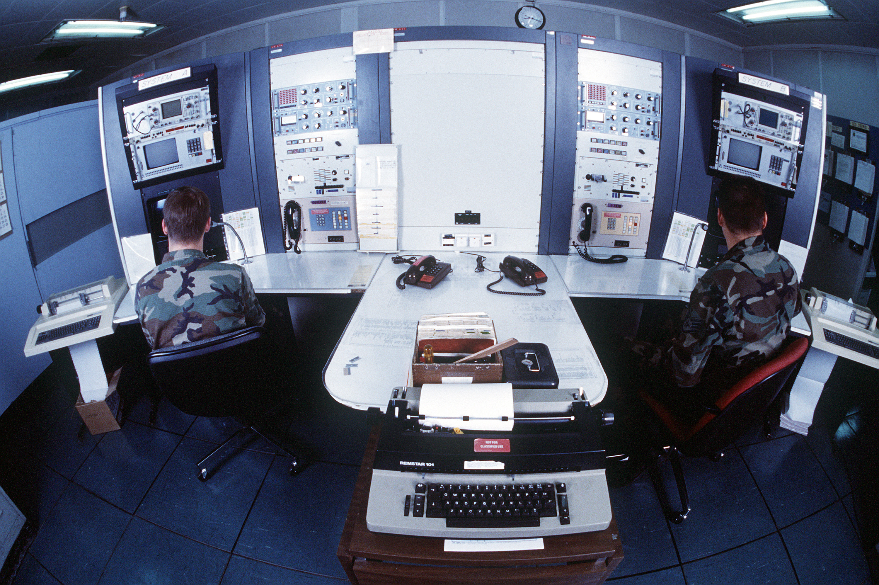 Western Union Automatic Digital Network (AUTODIN). Airman 1st Class Charles W. Carlson, left, an Automatic Digital Network (AUTODIN) system control operator, and Staff Sgt. David G. Swain, non-commissioned officer in charge, AUTODIN circuit actions, monitor AUTODIN circuits at monitor/test subsystem stations in the AUTODIN switching center. Both men are members of the 2130th Communications Group, U.S. Air Force Communications Command (AFCC).